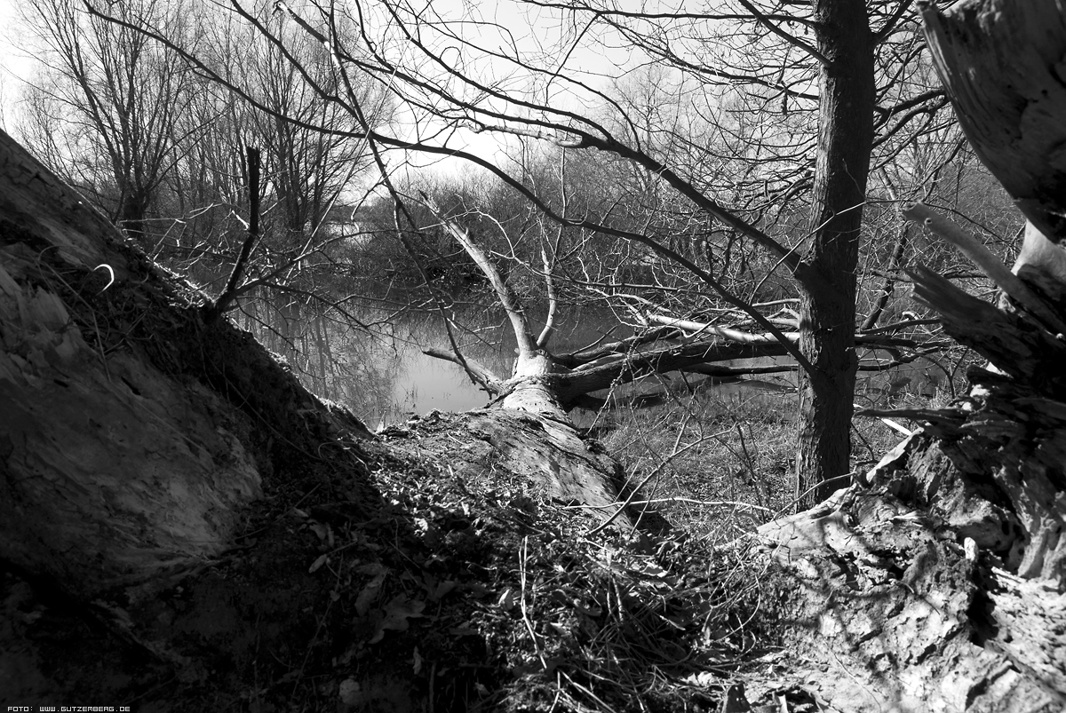 fallen tree on the banks of the Elbe in "Vierwald" near Boizenburg/Elbe